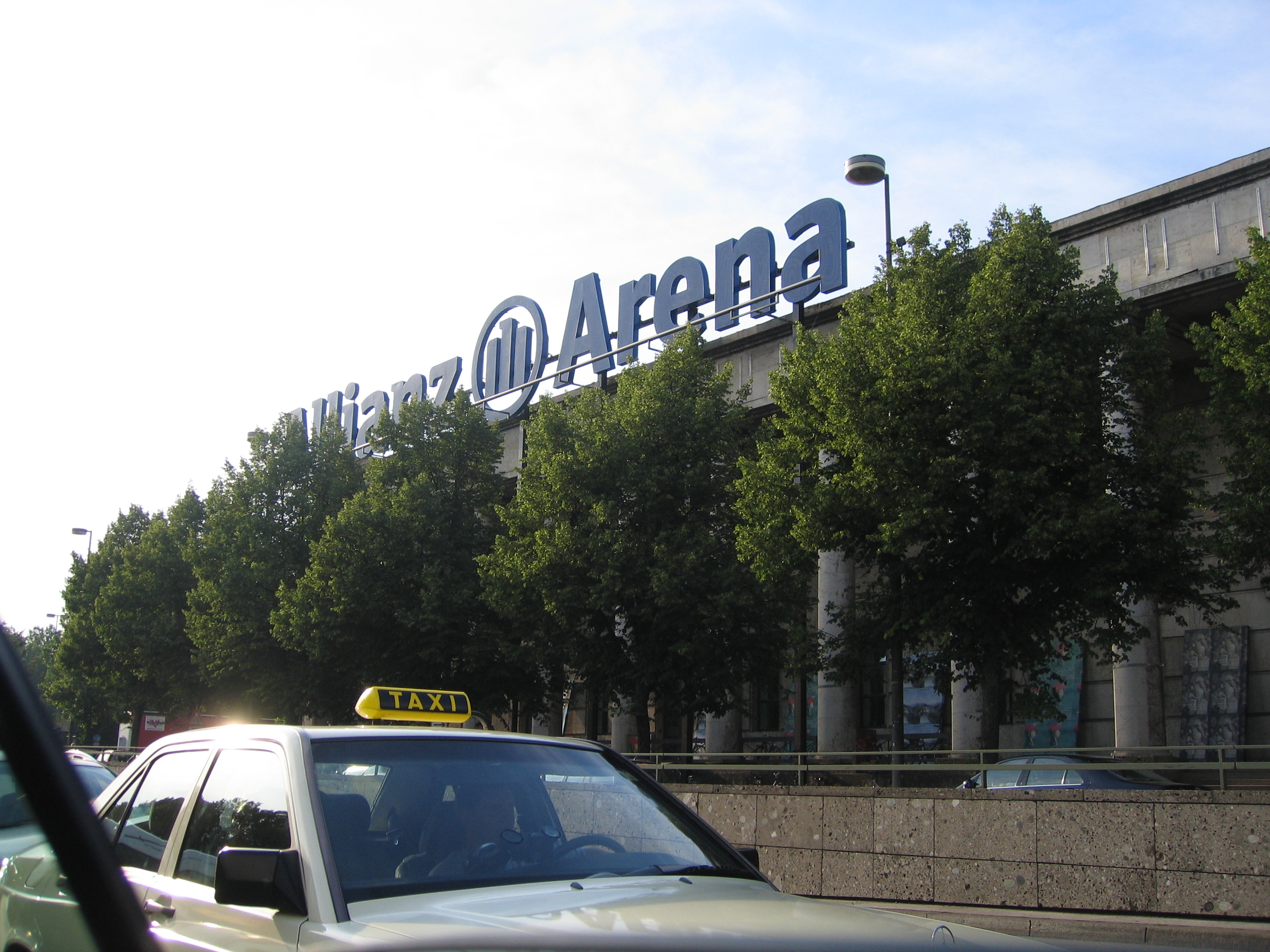 Logo of the Allianz Arena at Haus der Kunst in Munich, Bavaria during 2006 FIFA World Cup.